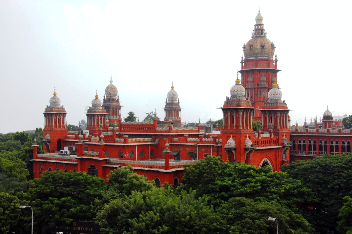 Edited version of Chennai High Court.jpg